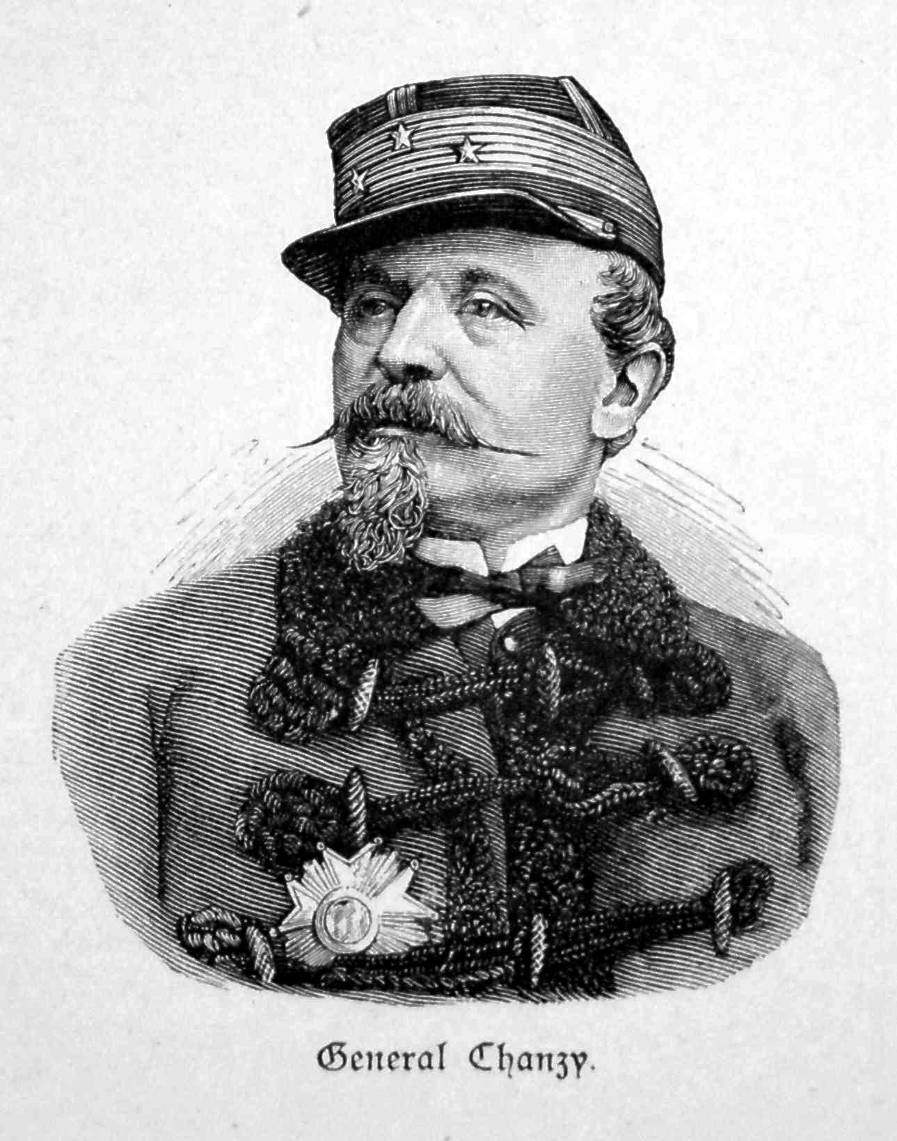 general Chanzy